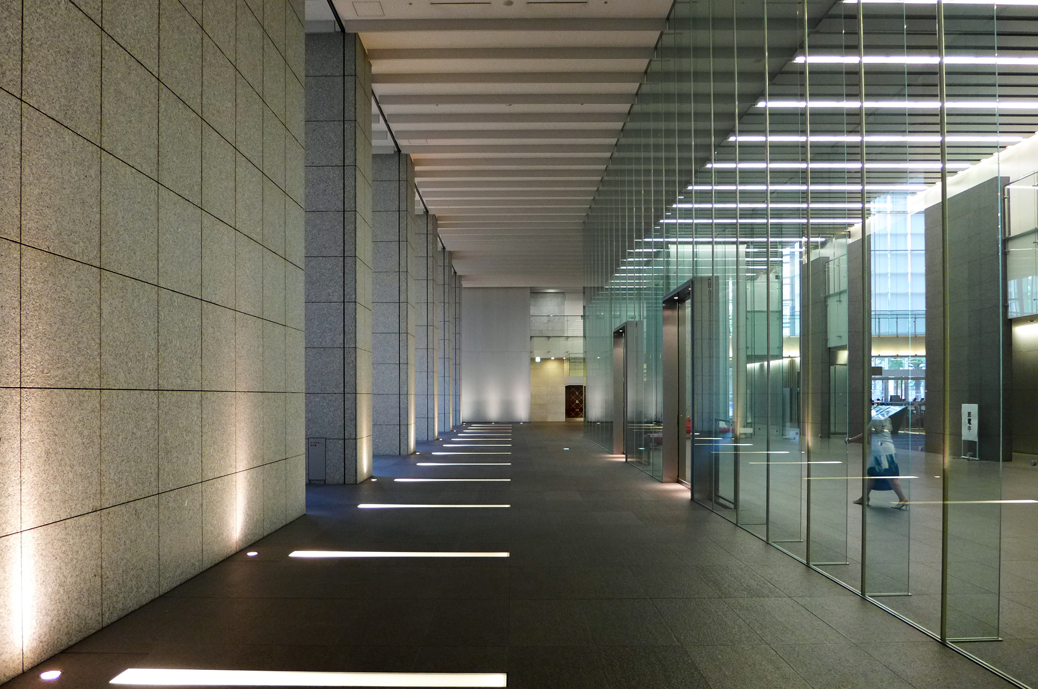 Nissay Sapporo Building Office lobby